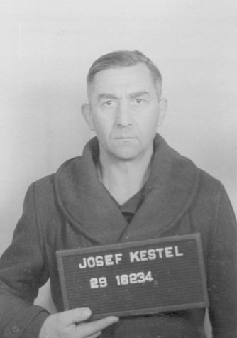 Josef Kestel was SS-Hauptscharführer in the concentration camp of Buchenwald. In the Buchenwald Camp Trial (part of the Dachau Trials) he was sentenced to death by hanging.